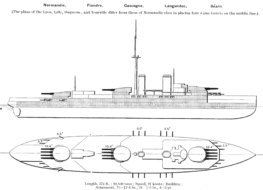 Sketch of the Normandie class battleship project.